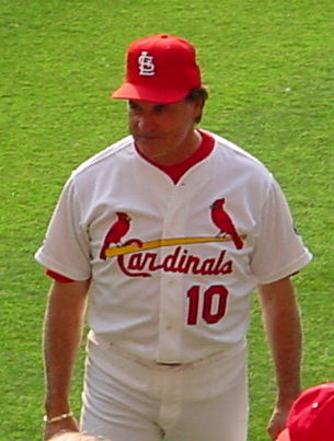 Cropped picture of Tony La Russa on the outfield warning track at Busch Memorial Stadium during "Photo Day," June 29, 2002. Taken at 5:57 pm Central Standard Time from the left field bleachers at Busch Memorial Stadium with a Sony Cybershot digital camera. On May 11, 2012 the St Louis Cardinals retired La Russa's #10, forever honoring his amazing 16 year career with the Birds.